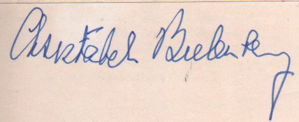 The signature of Christabel Bielenberg (1909-2003)